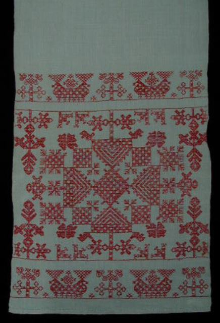 Traditional "käspaikka" cloth from Äänislinna 1942, now in Lappeenranta museum